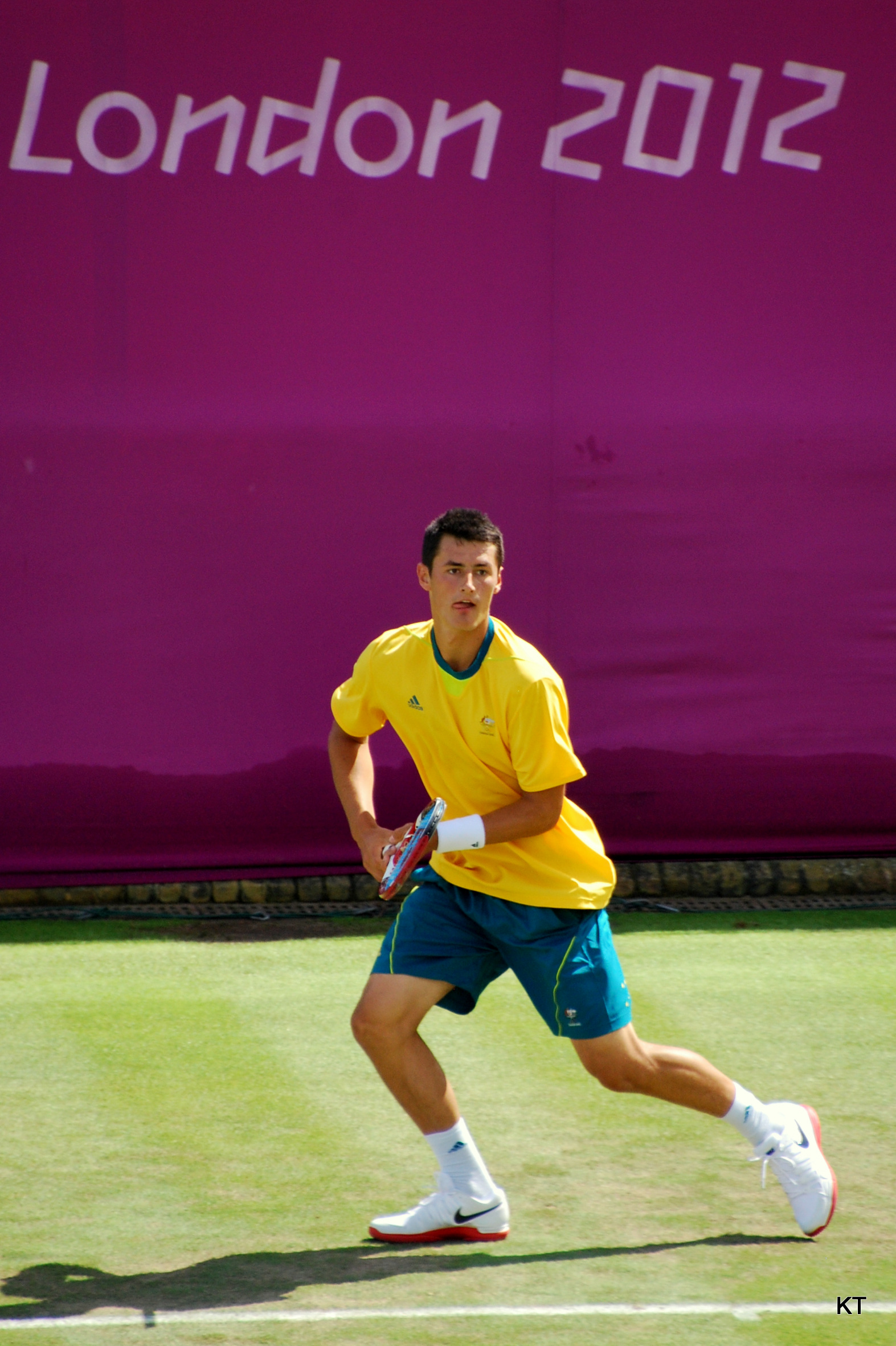 Bernard Tomic during his first round match with Kei Nishikori.